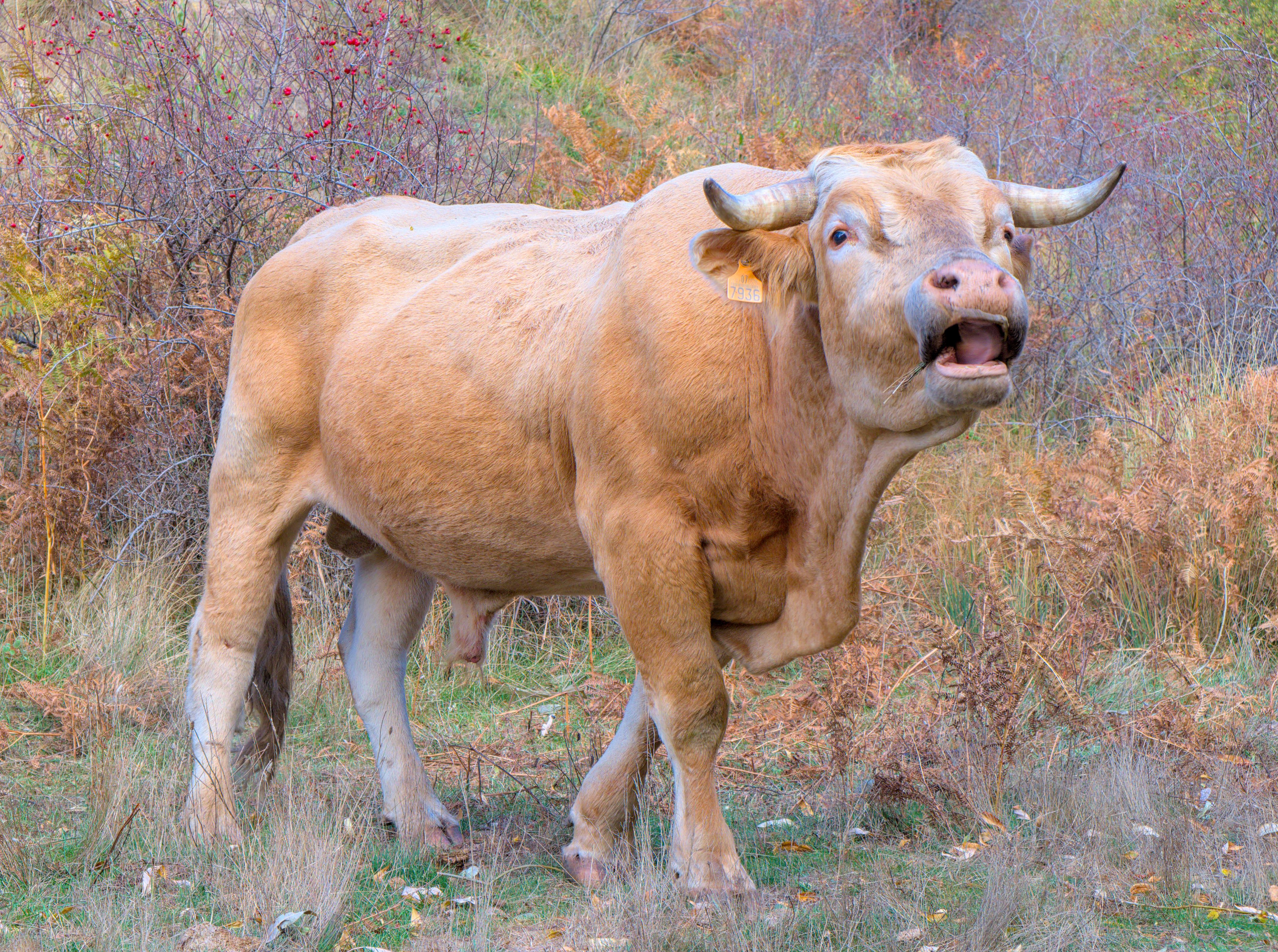 Bull feeding in Capileira, Sierra Nevada National Park This is a photography of a Special Area of Conservation in Spain with the ID: ES6140004. Natura2000 entry, EEA entry